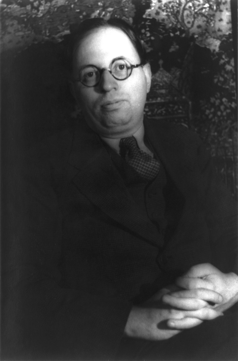 Elmer Rice, 28th November 1934